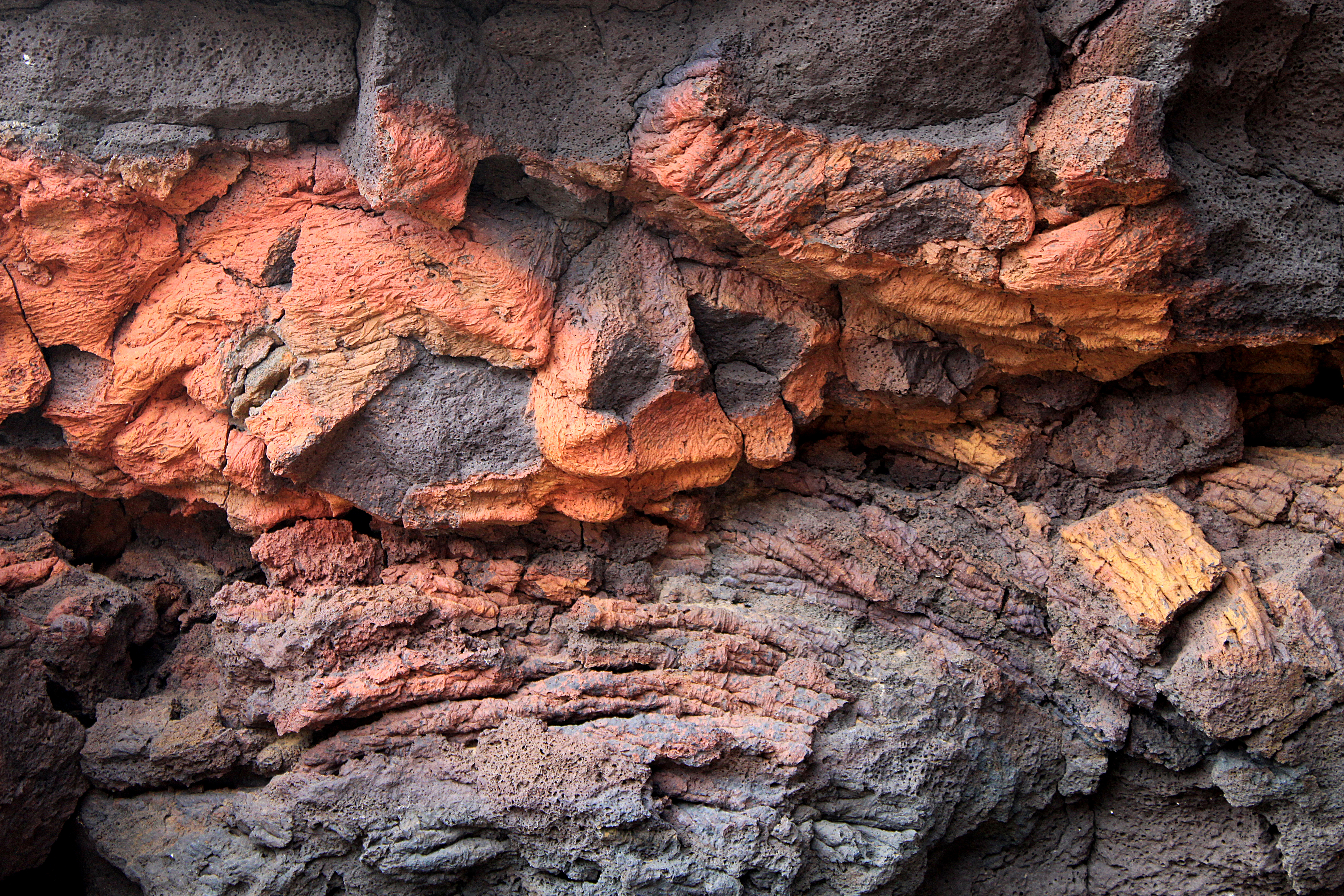 Lava at the access to the "Cueva de los Verdes", Lanzarote, Canary Islands.